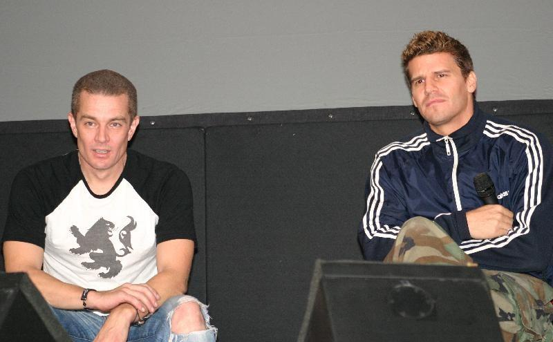 American actors James Marsters and David Boreanaz at a London Q&A.